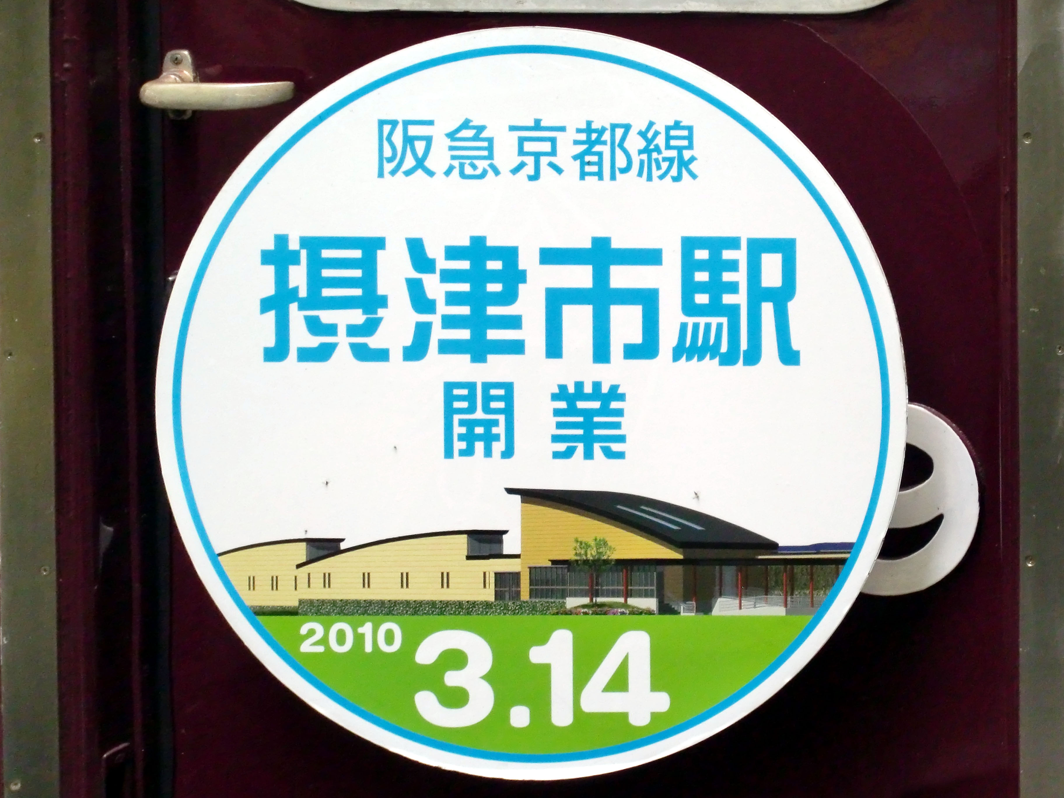 Hankyu Railway Settsu-shi Station Head Mark (Sign of train).